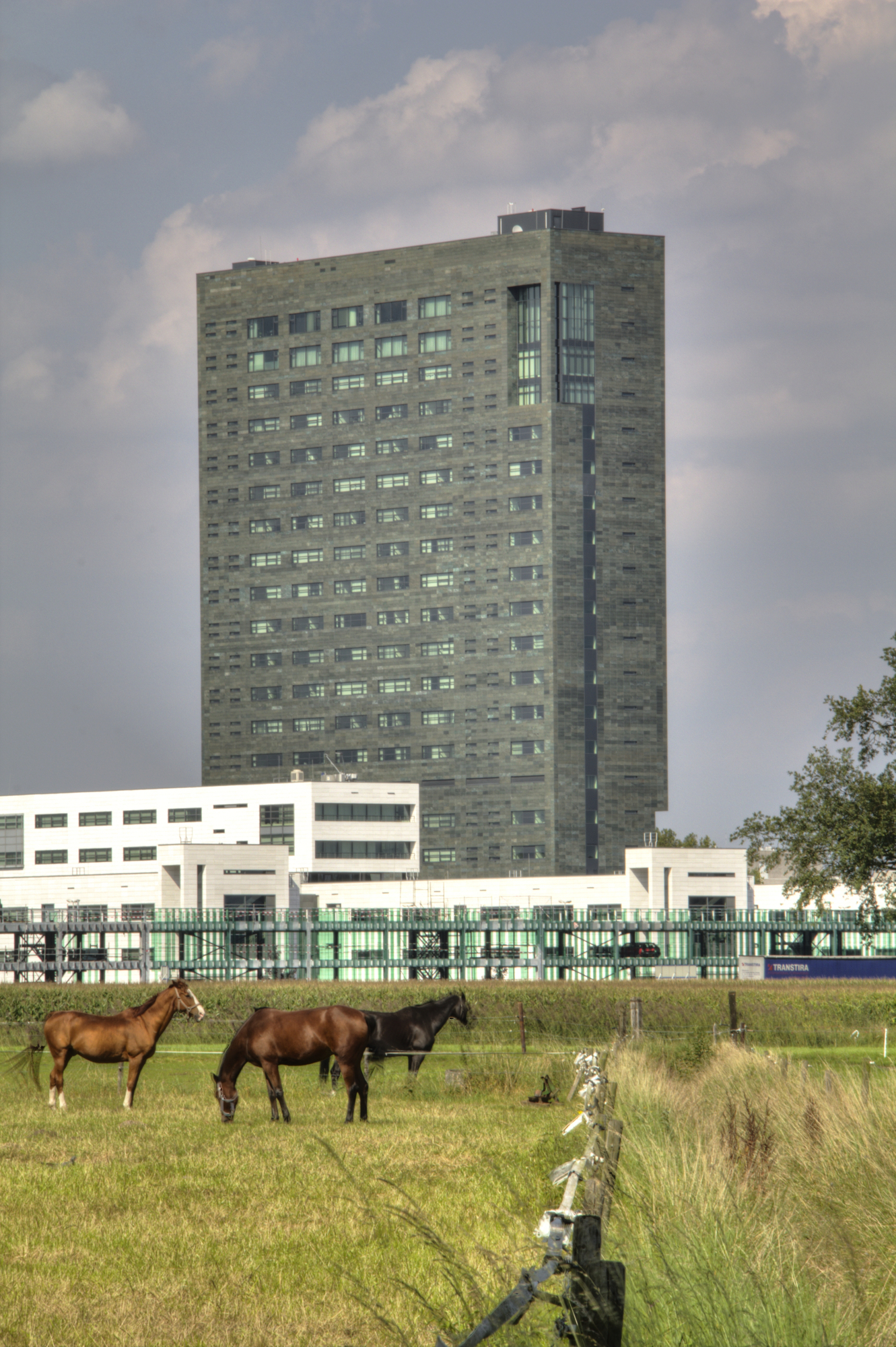 ASML 8 Tower